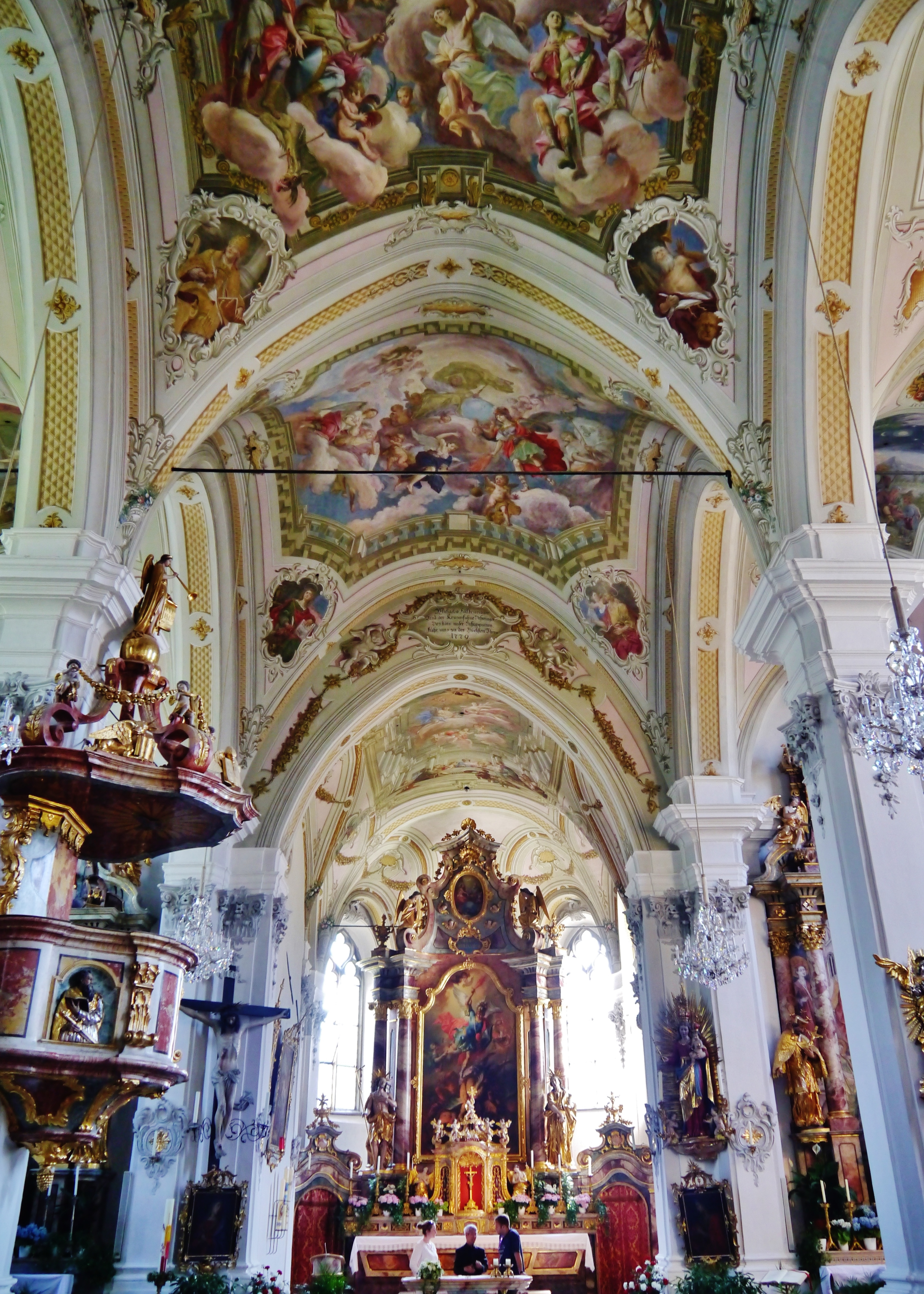 Nave of the Basilica St. Michael, Absam, Tyrol, Austria